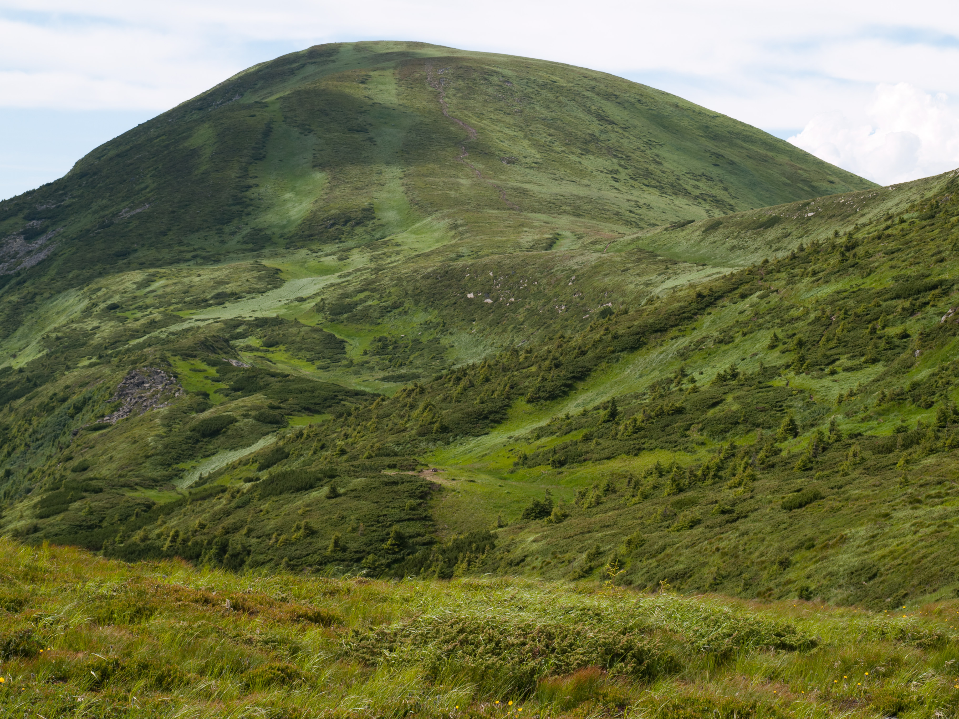 Breskul